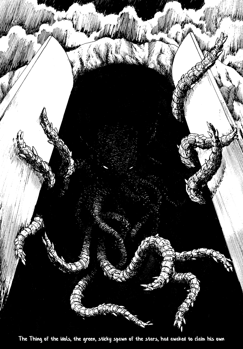 The Madness from the Sea, Sofyan Syarief's artwork based on H. P. Lovecraft's story The Call of Cthulhu.